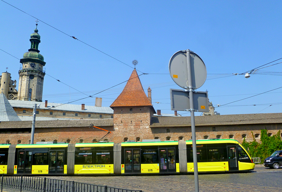 Lviv city center, July 2015